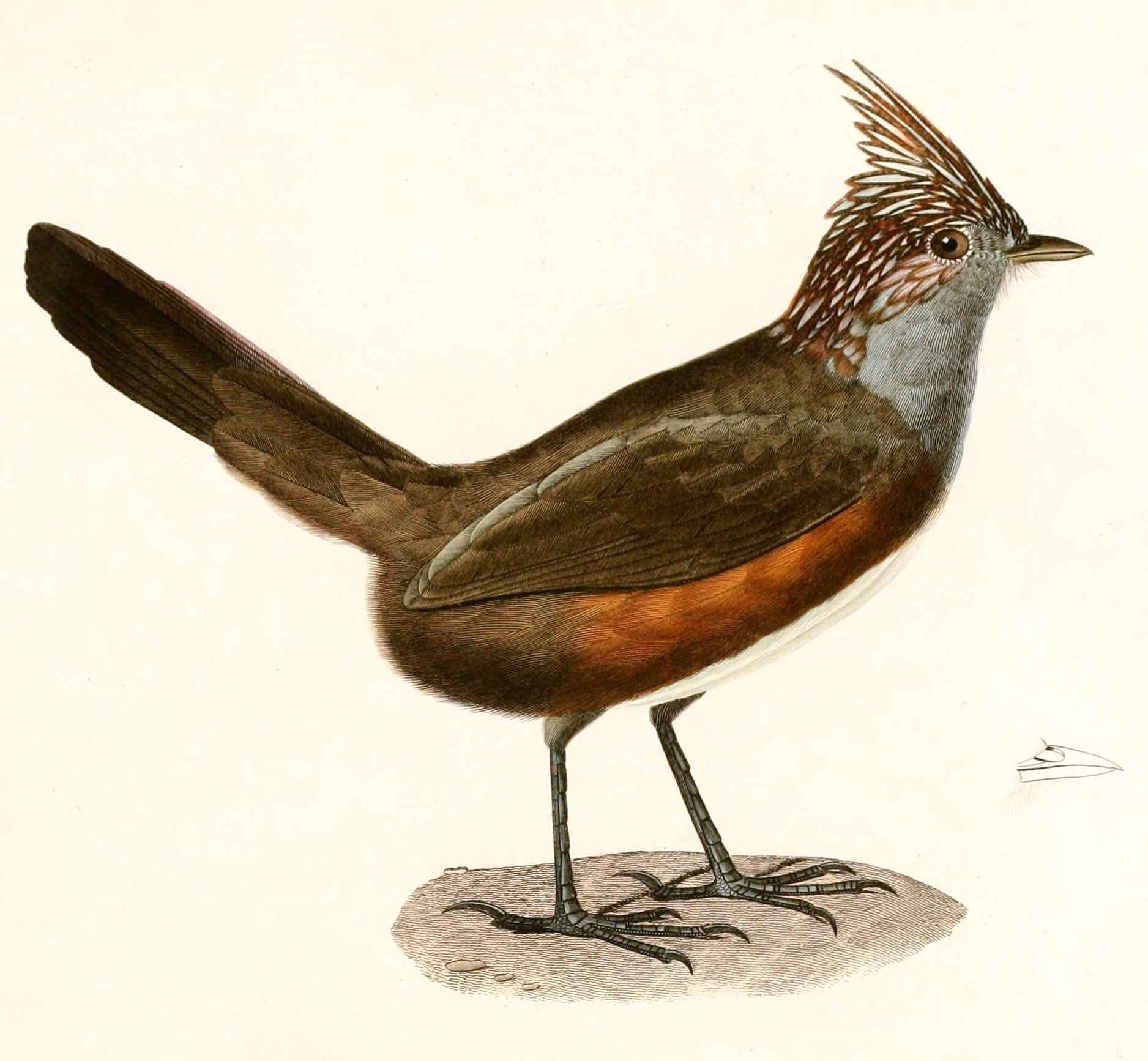 « Rhinomya lanceolata » = Rhinocrypta lanceolata (Crested Gallito)